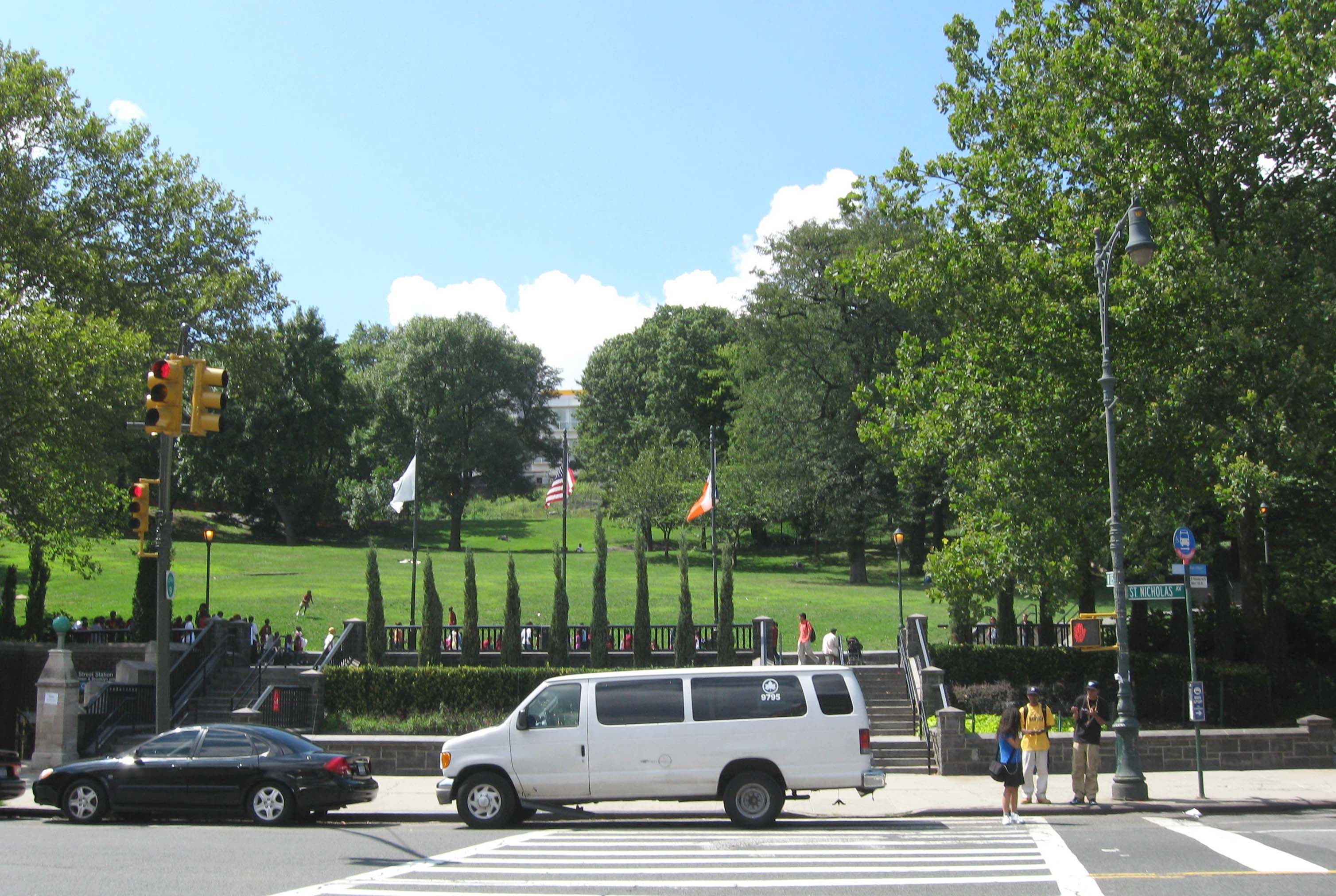 Looking west at 135th Street entrance of St. Nicholas Park on a mostly sunny midday